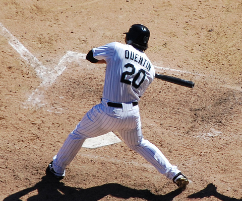 Carlos Quentin's swing as he connects for a home run on July 23, 2008.